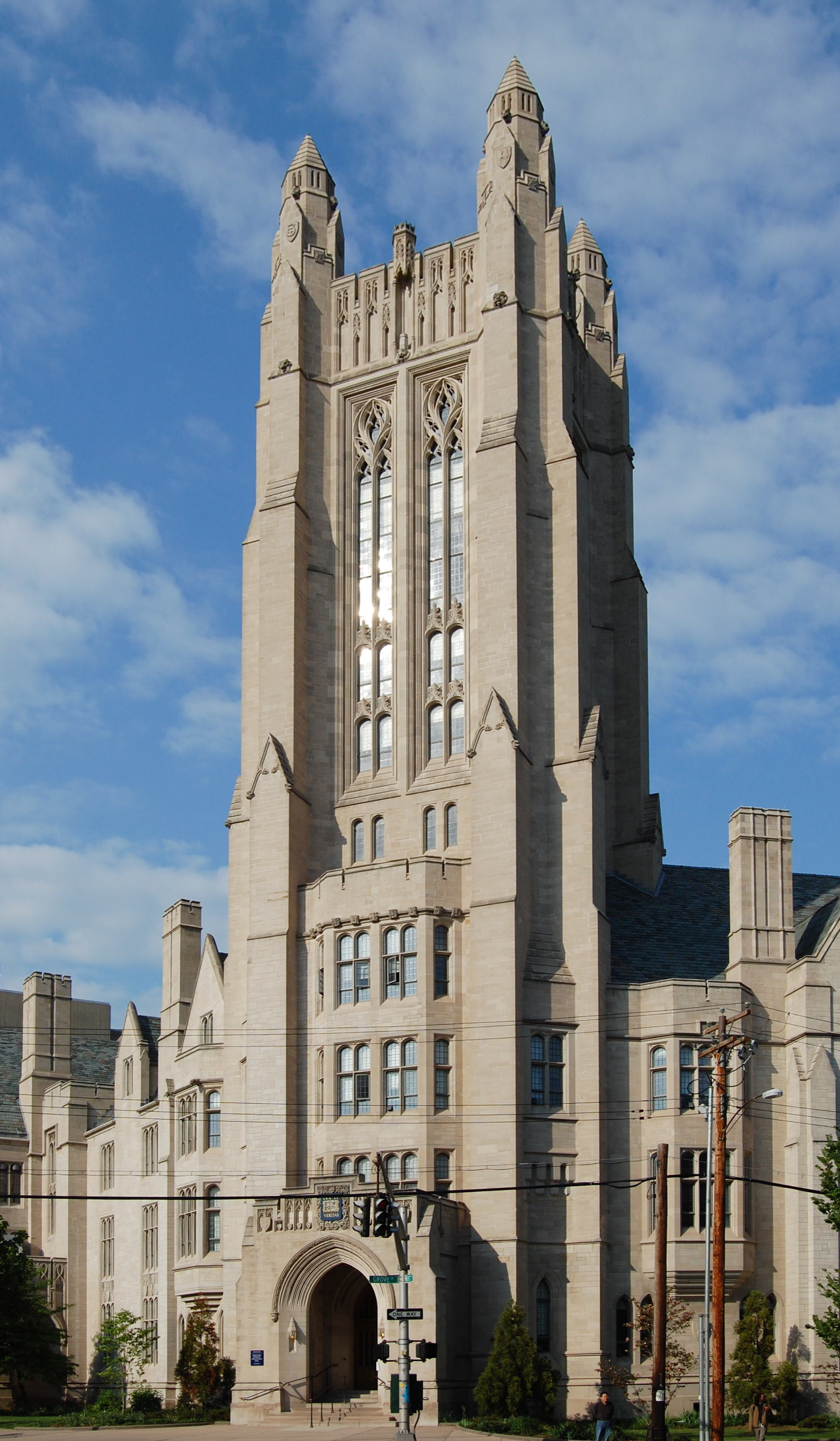 Sheffield Sterling Strathcona Hall from south, Yale University